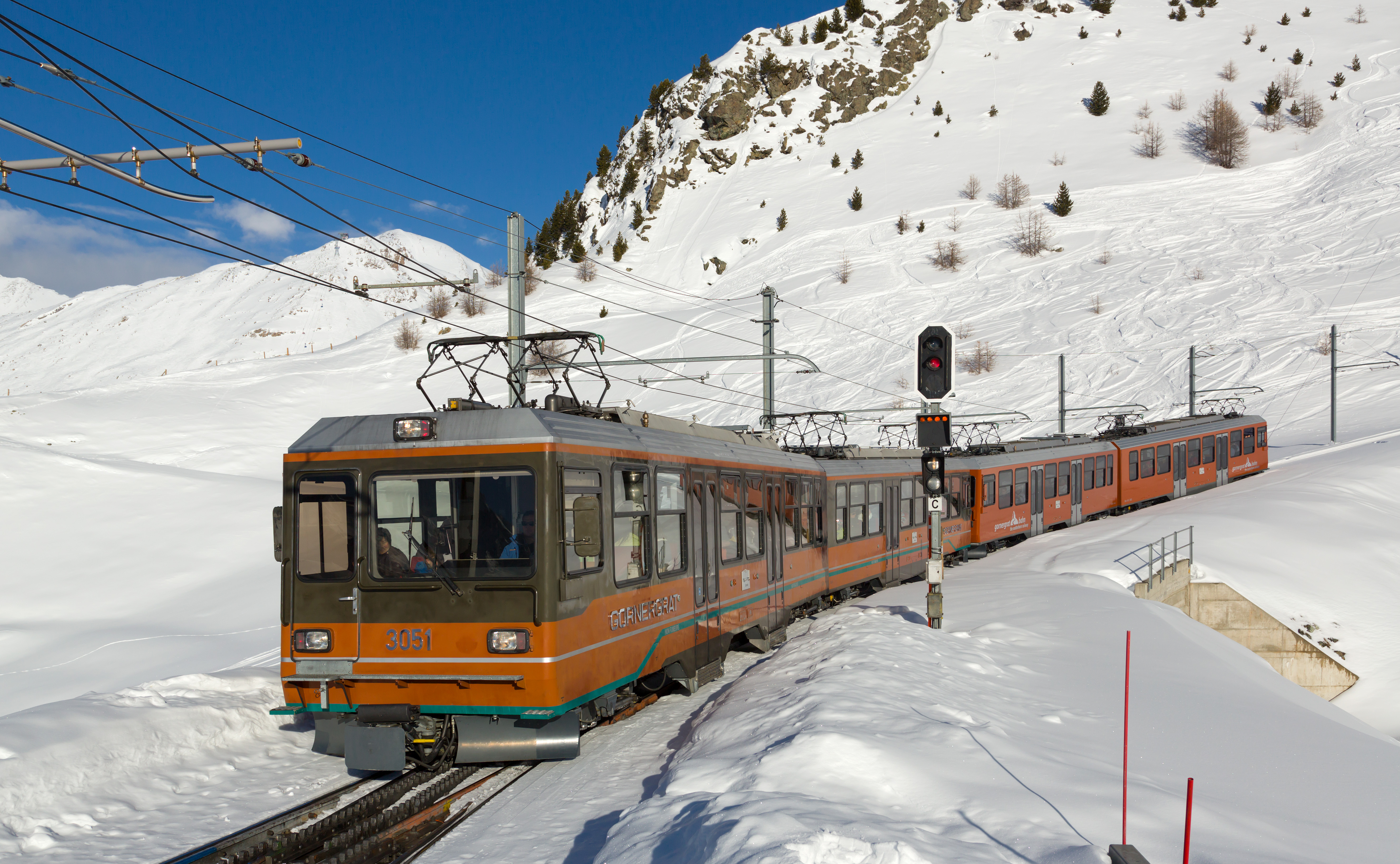 Gornergratbahn Bhe 4/8 in old colors at the Riffelboden service station, Switzerland.